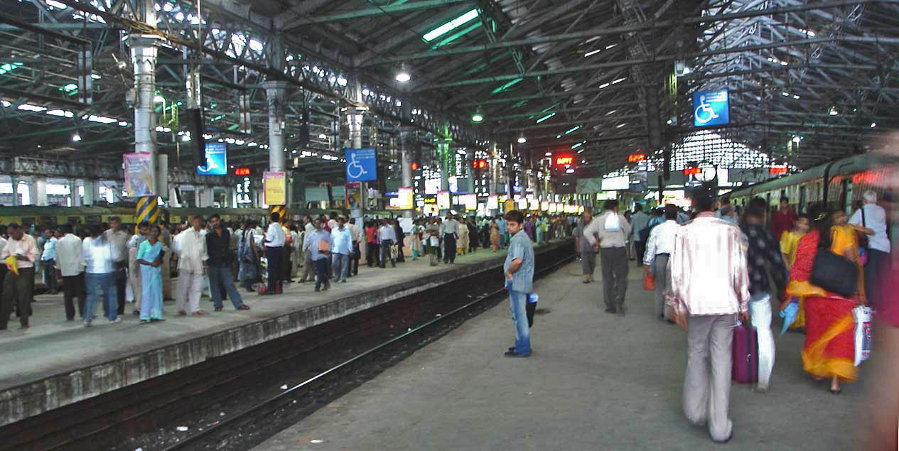 Commuters await the arrival of a local train inside Mumbai CST railway station. The station is a major terminus for suburban and outstation trains.